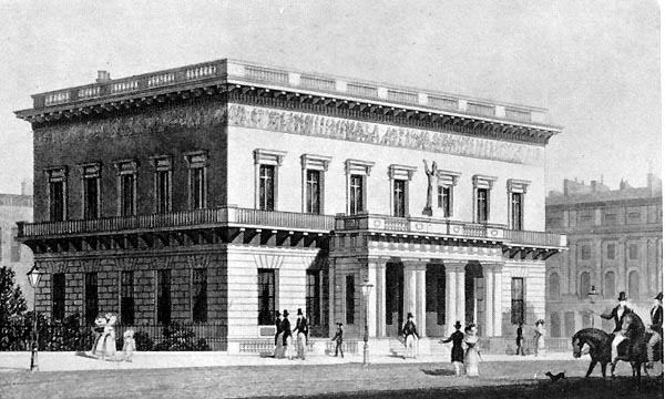 The Athenaeum Club in London in 1830. Engraved by James Tingle (1801-1858) from an original study (now in the Museum of London) by Thomas Hosmer Shepherd